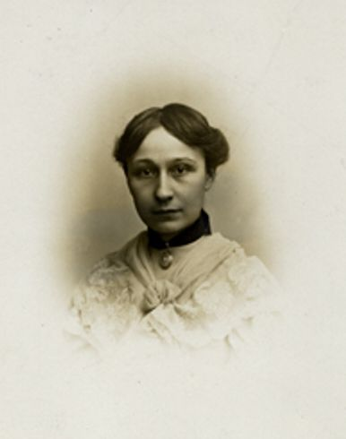 Juliette Vesque (1881-1962), French painter - see Vesque Sisters